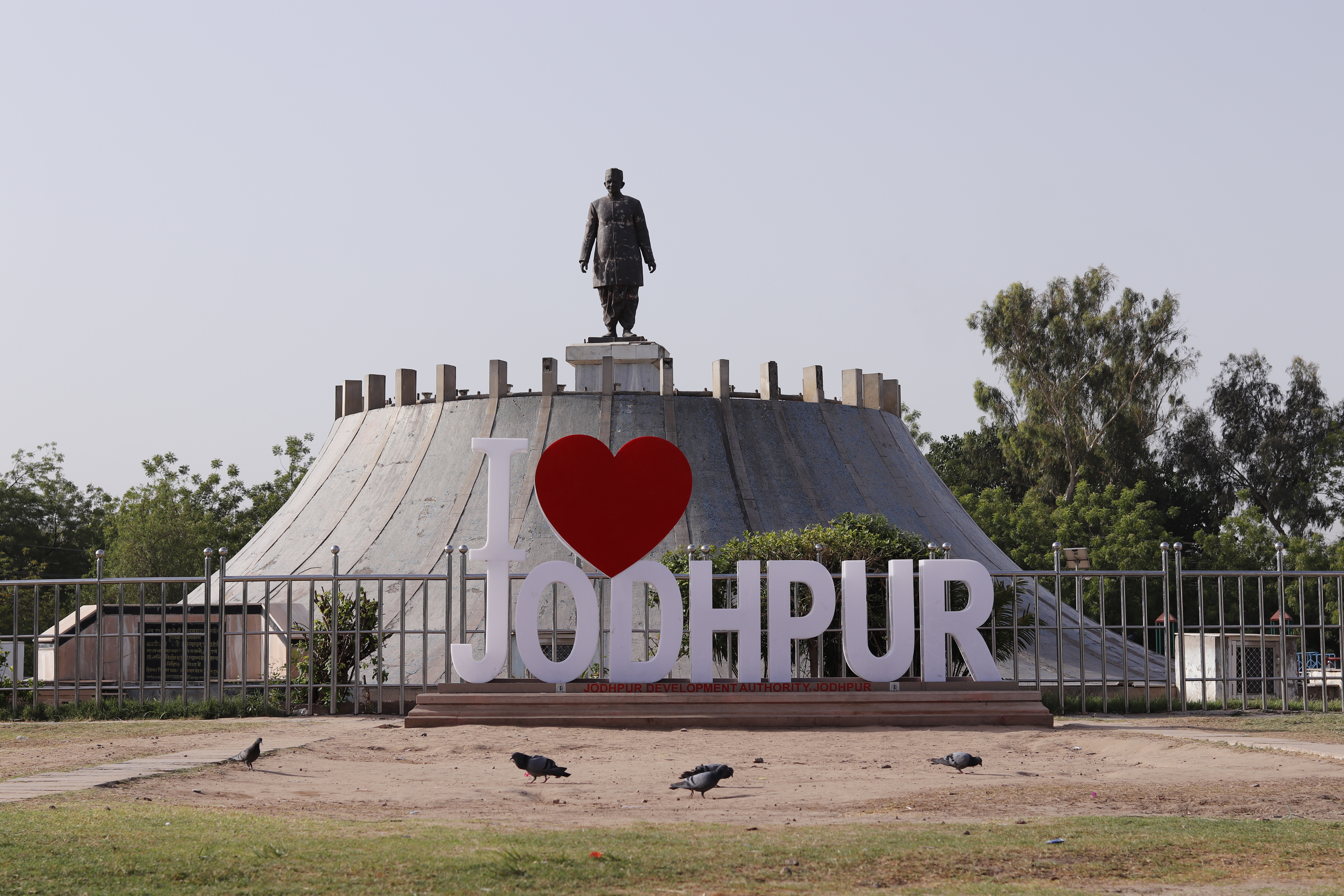 Shastri Circle Jodhpur. staue of Lal Bahadur Shastri in Jodhpur also I love Jodhpur